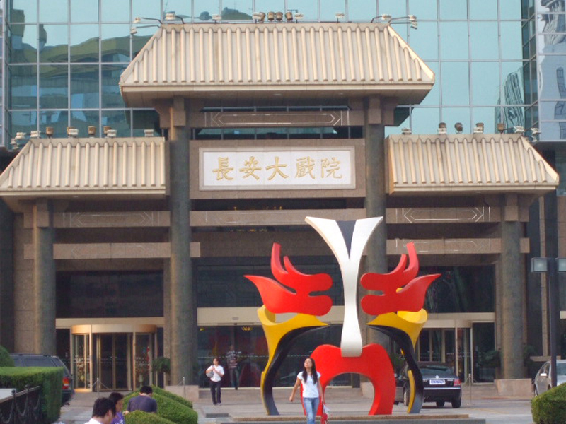 The Chang'an Grand Theatre in Beijing